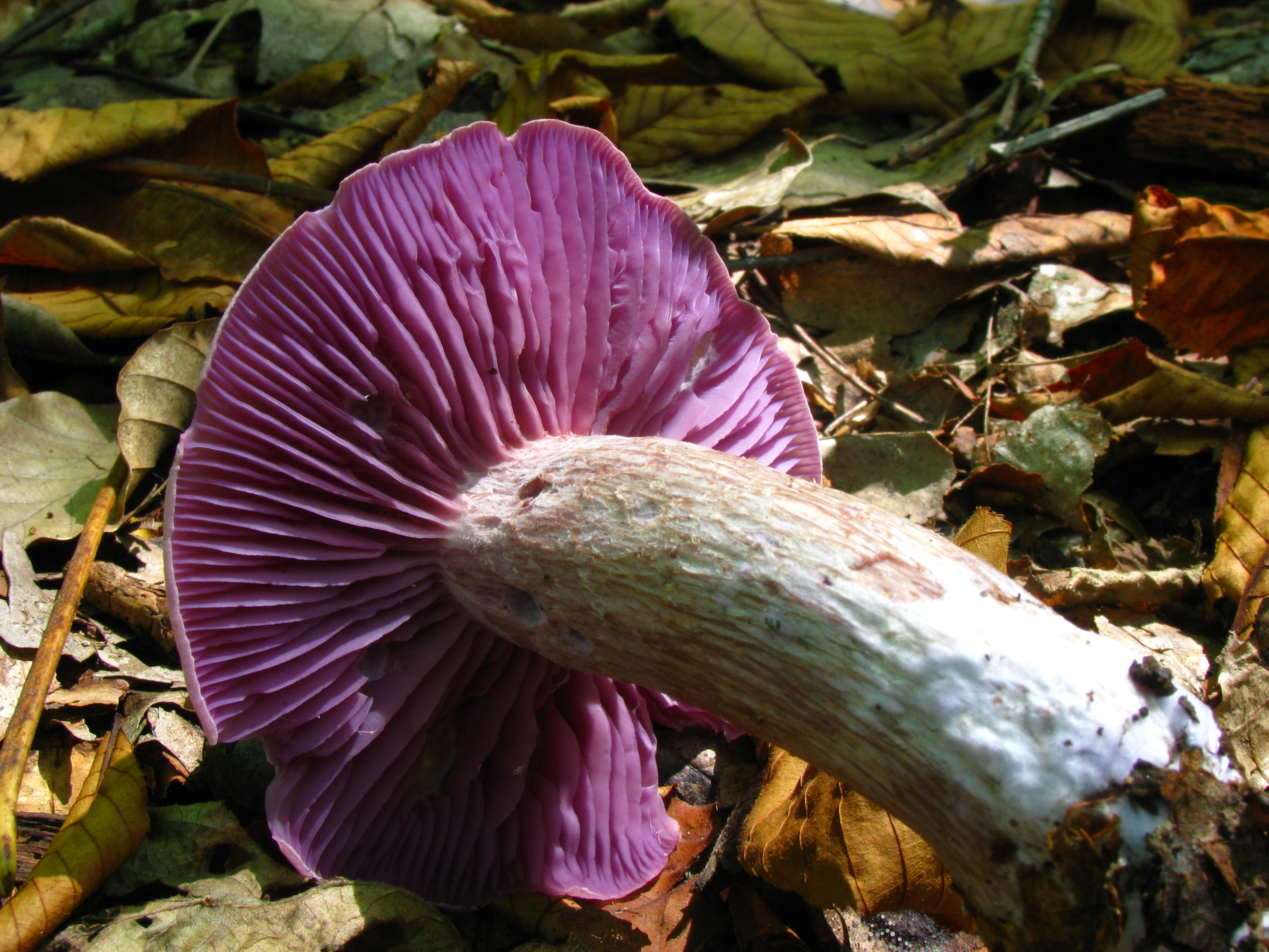 Laccaria ochropurpurea ((Berk.) Peck) Location: Wayne National Forest, Athens Co., Ohio, USA